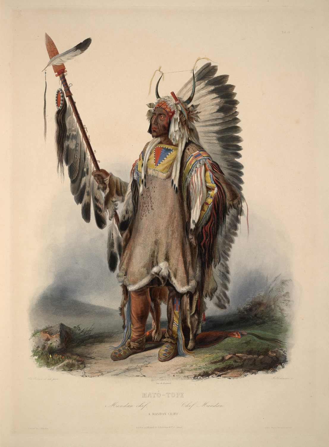 Aquatint after Karl Bodmer (1809 - 1893)